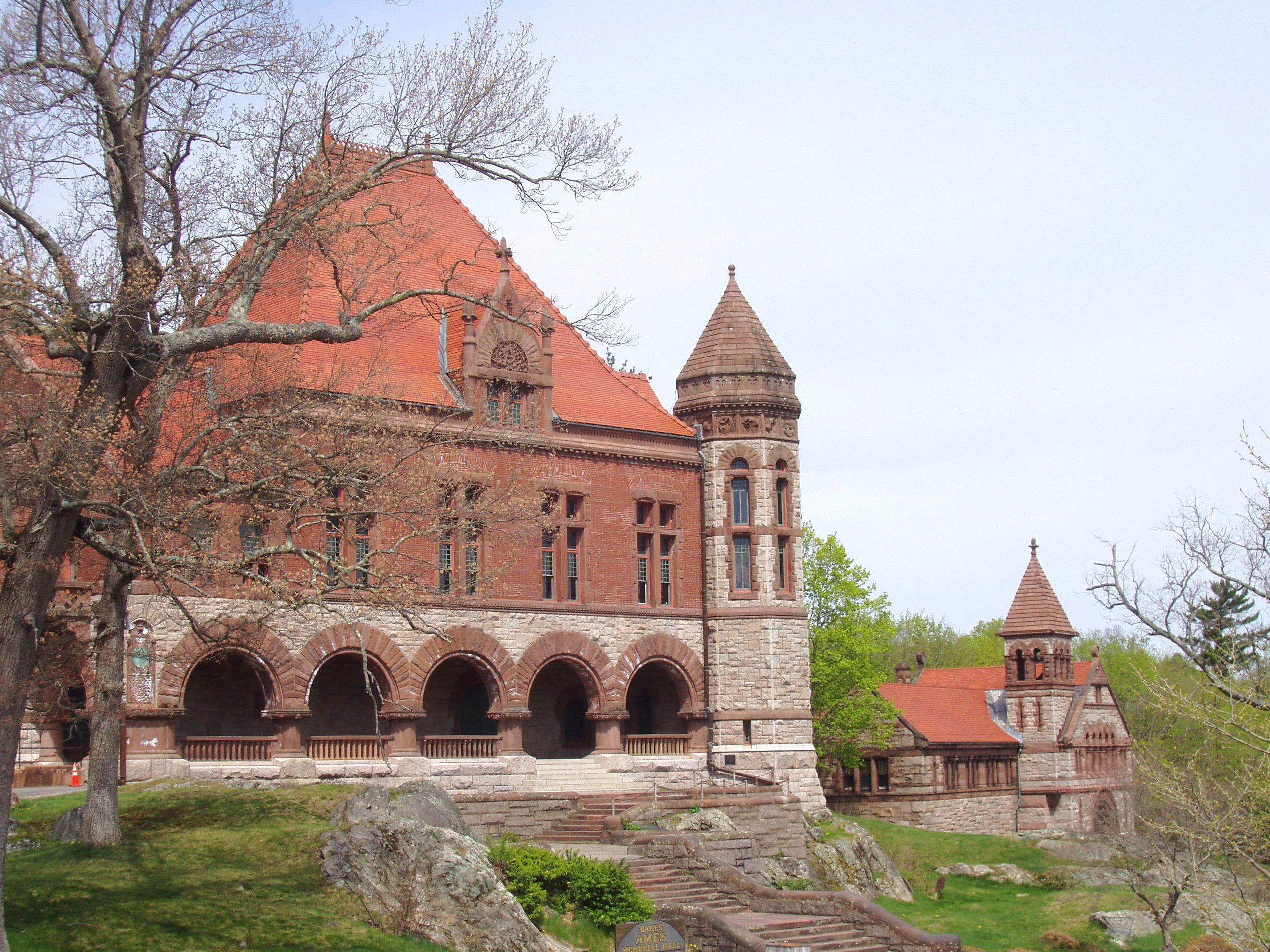 Oakes Ames Memorial Hall with Ames Free Library in background, North Easton, Massachusetts, USA. H. H. Richardson, architect, with grounds by Frederick Law Olmsted.